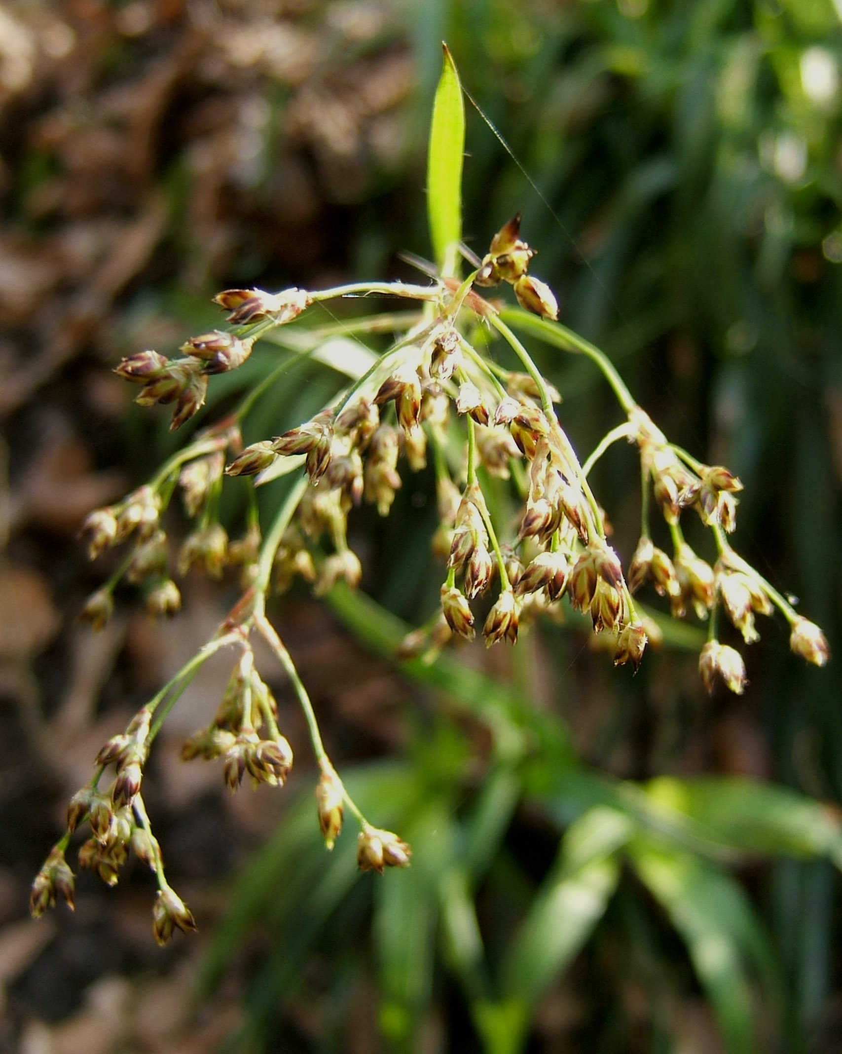 Great wood rush